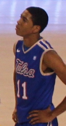 Shaquille Harrison for Tulsa